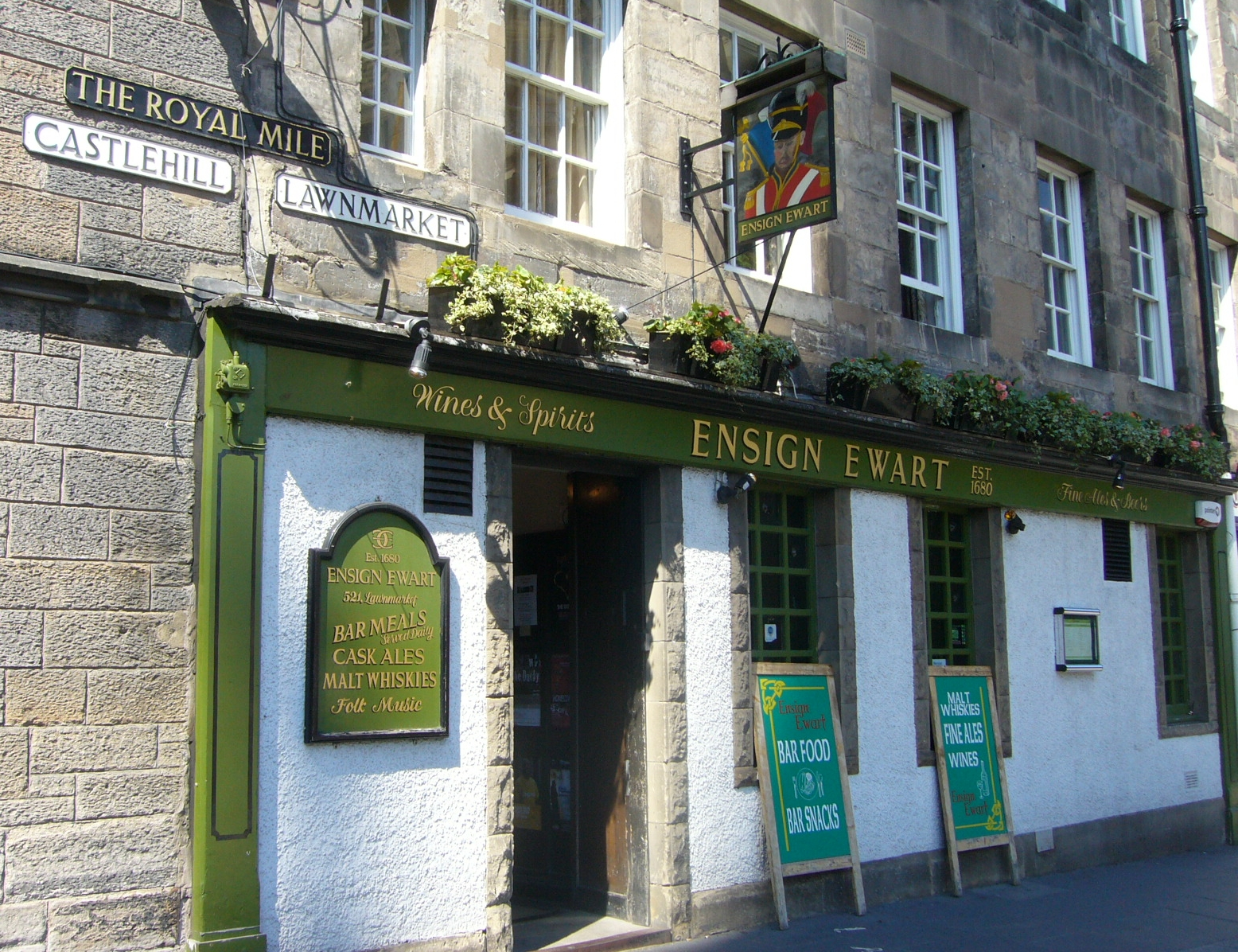 A public house in the Royal Mile, named in honour of the soldier of the Royal Scots Greys who single-handedly captured the Imperial Eagle standard of the French 45th Regiment at the Battle of Waterloo in 1815.